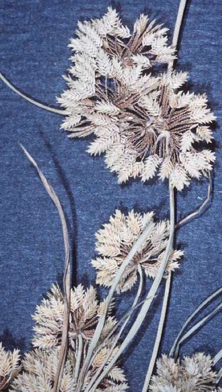 Cyperus acuminatus from Robert H. Mohlenbrock. USDA SCS. 1989. Midwest wetland flora: Field office illustrated guide to plant species. Midwest National Technical Center, Lincoln. Courtesy of USDA NRCS Wetland Science Institute. Cropped.